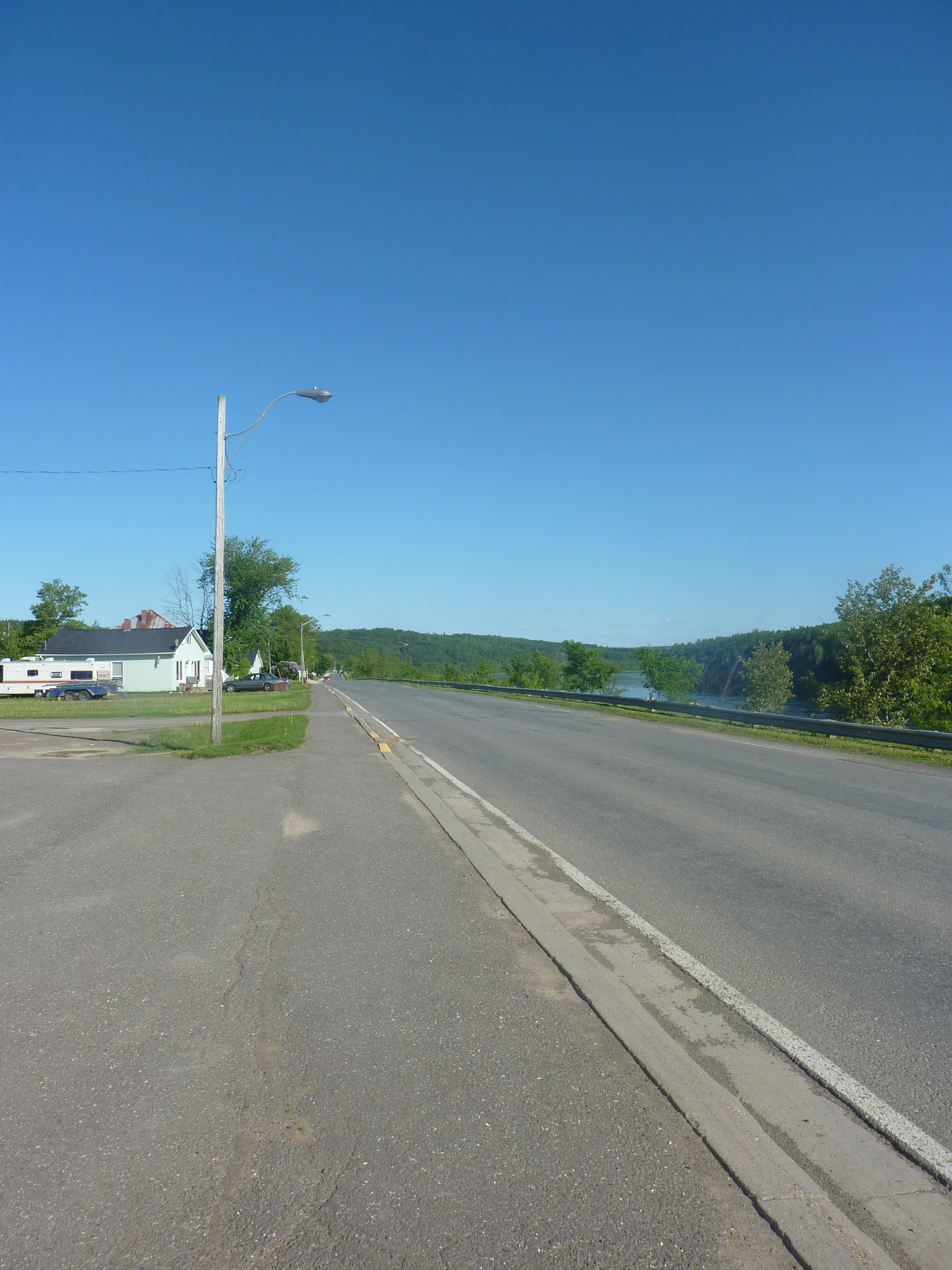 New Brunswick Route 105 at Bath